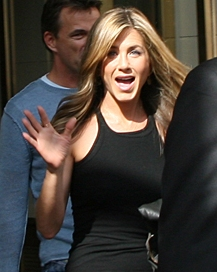 Jennifer Aniston at the 2008 Toronto International Film Festival